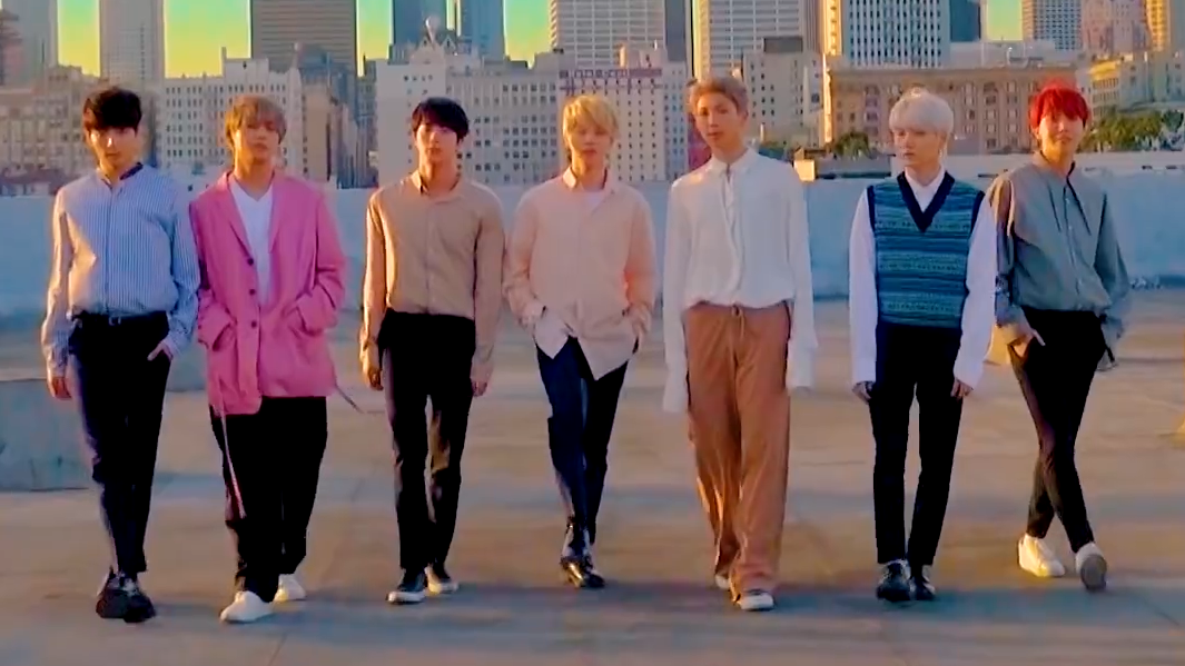 BTS in a photo shoot for Dispatch in November 2017, in Los Angeles, California, USA